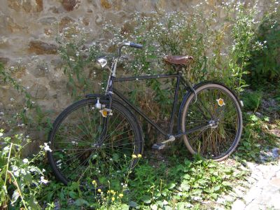 A bicycle in Ljubljana, Slovenia